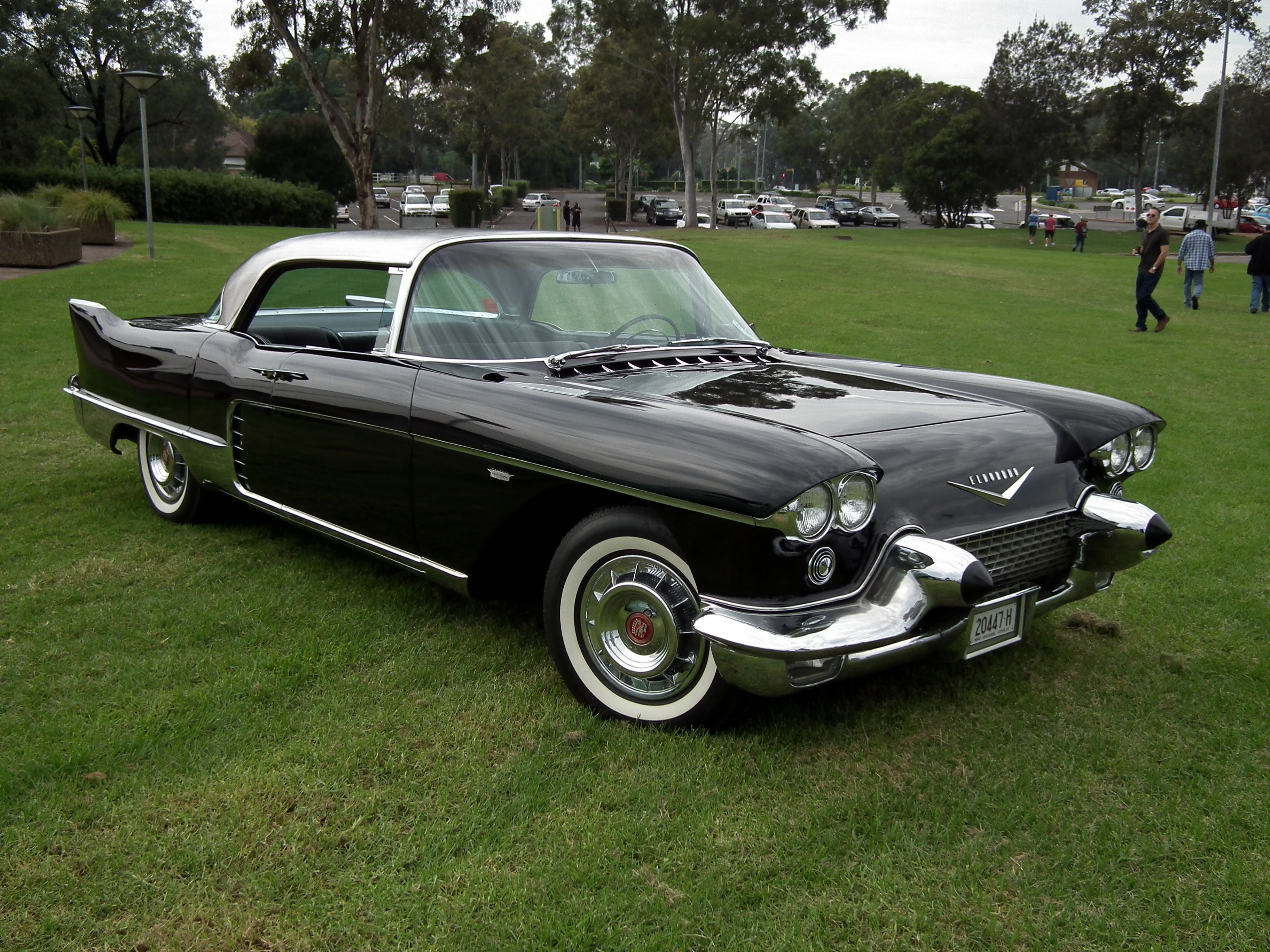 1957 Cadillac Eldorado Brougham hardtop. Taken at the General Motors Display Day, held in the grounds of Penrith Panthers Club, Penrith NSW.